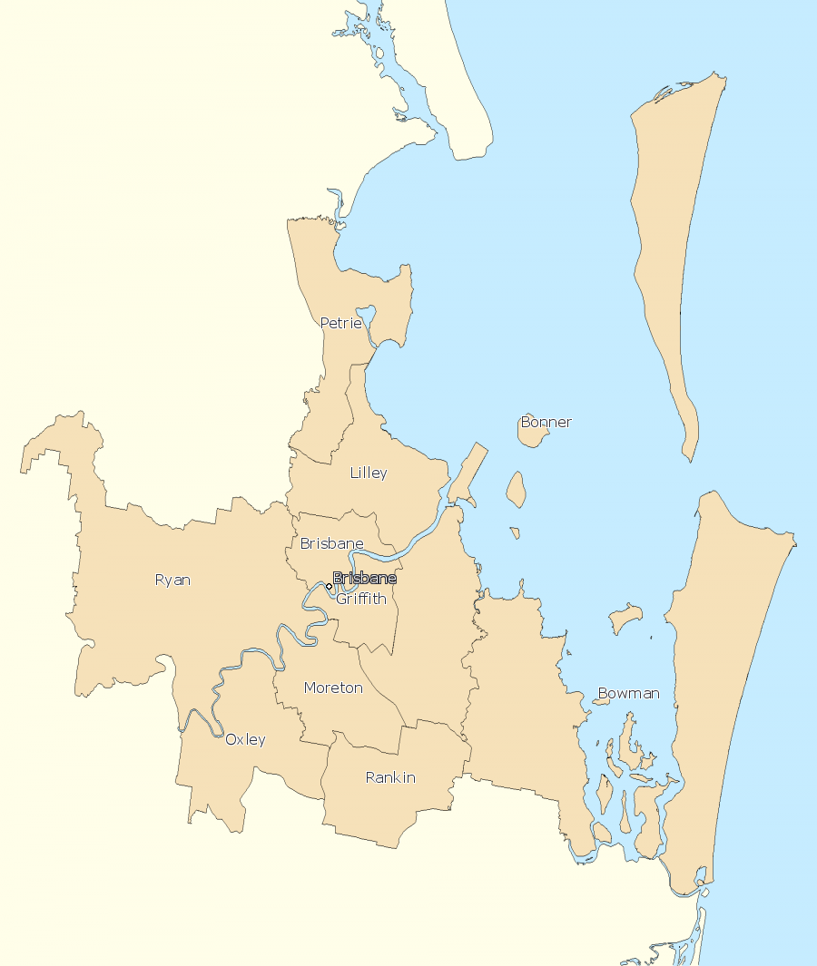 Incorporates or developed using Administrative Boundaries ©PSMA Australia Limited licensed by the Commonwealth of Australia under Creative Commons Attribution 4.0 International licence (CC BY 4.0). Derived from State and Territory Boundaries from the Australian Bureau of Statistics under Creative Commons Attribution 2.5 Australia license (CC BY 2.5 AU)